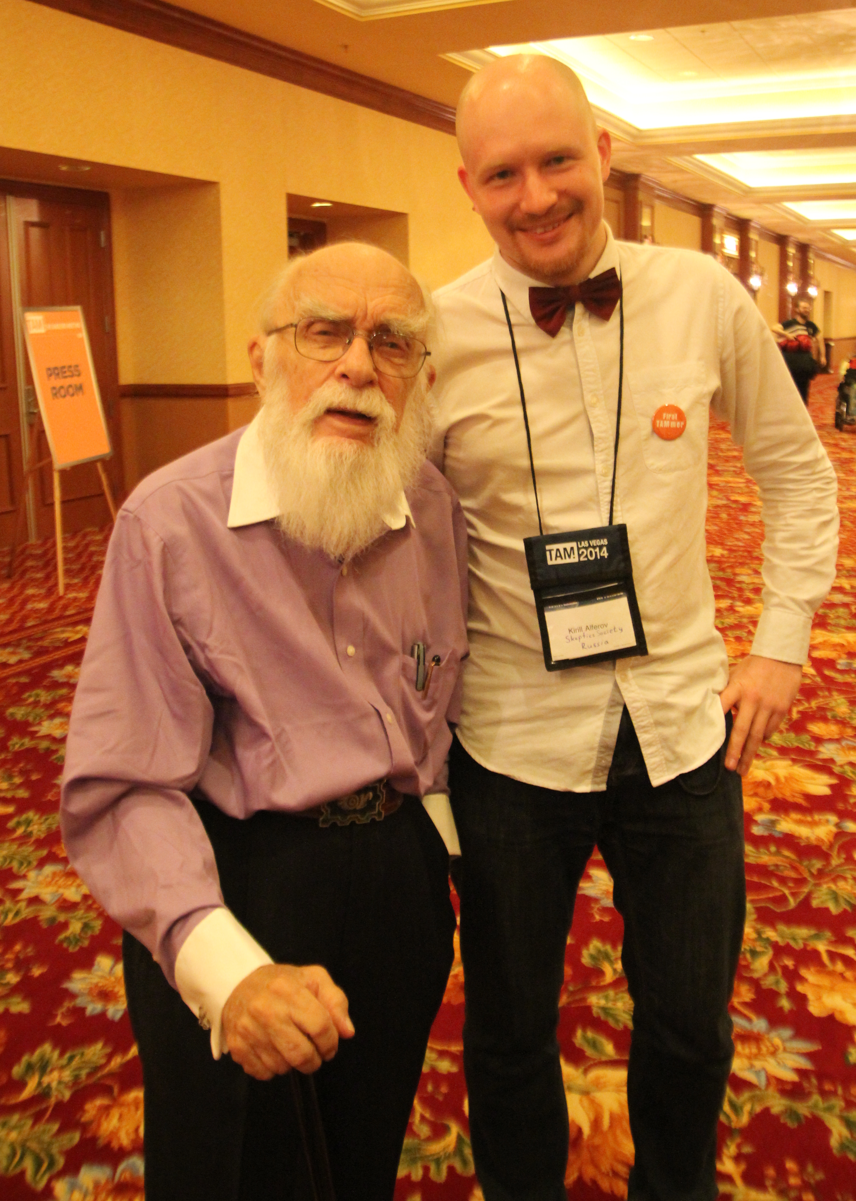 TAM 2014